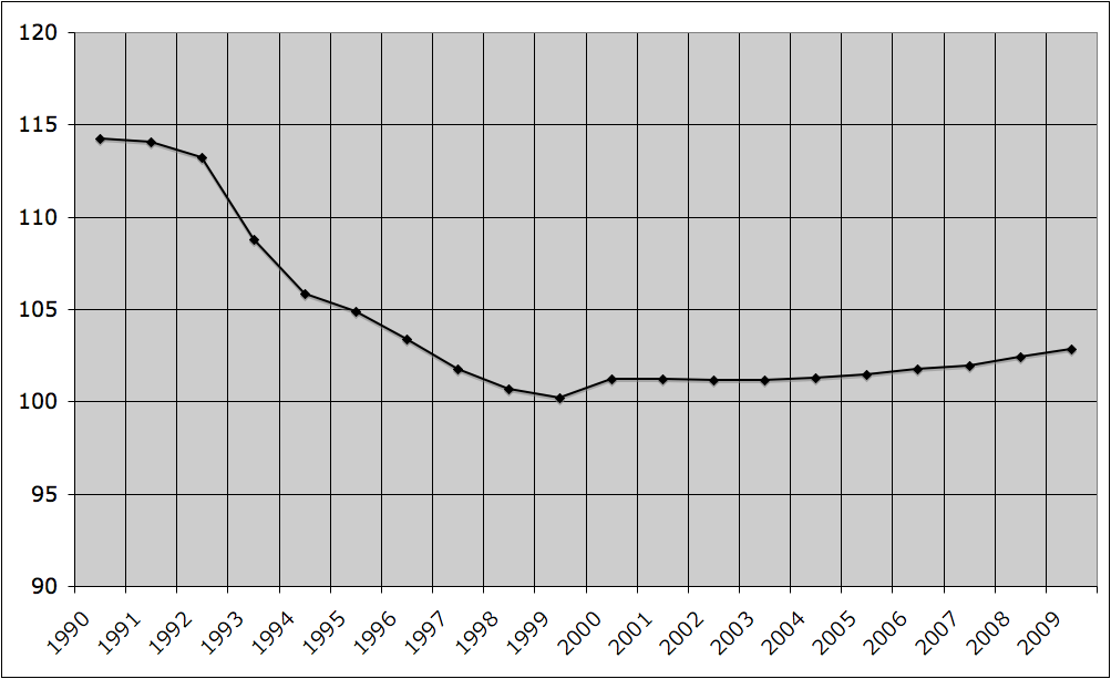 Tartu's population, Estonia, (1990-2009). Population in thousands. Created in Microsoft Excel. Data is always from January 1 and taken from Statistics Estonia.